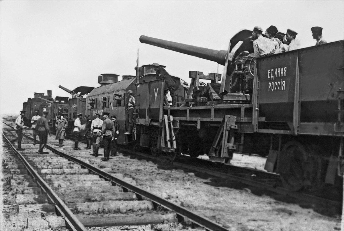 Armoured White Army train Yedinaya Rossiya (United Russia), on its way to Tsaritsyn, 15-17 June 1919. It belonged to the Volunteer Army.